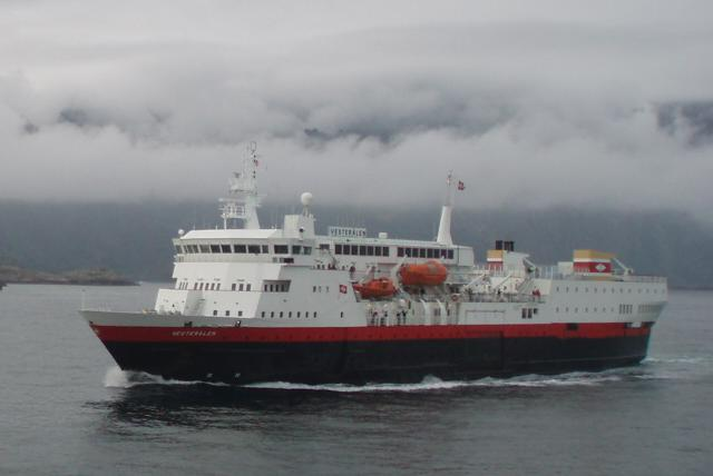 MS Vesterålen, a ship in service for the norwegian costal service Hurtigruten.